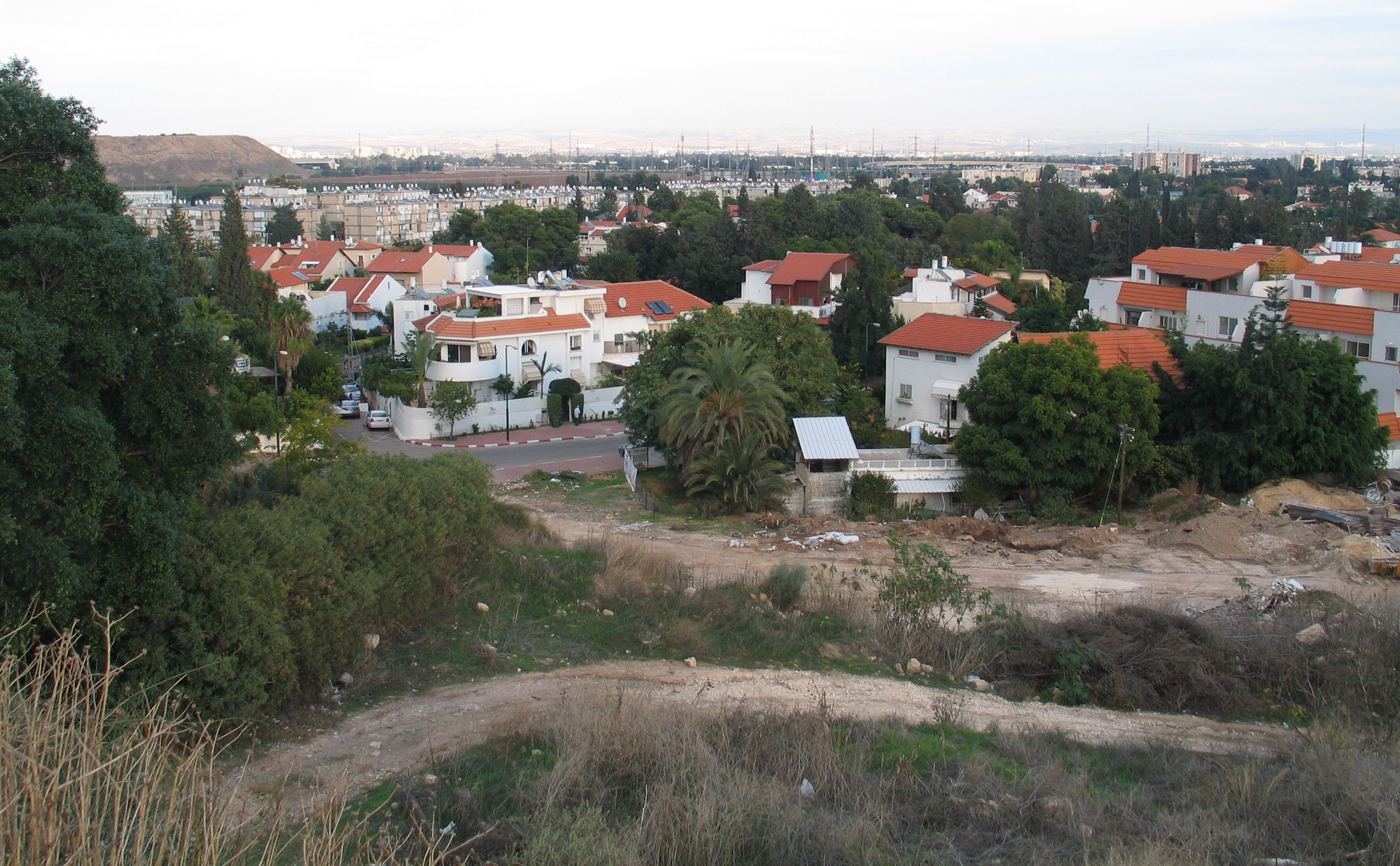 Azor, Israel.